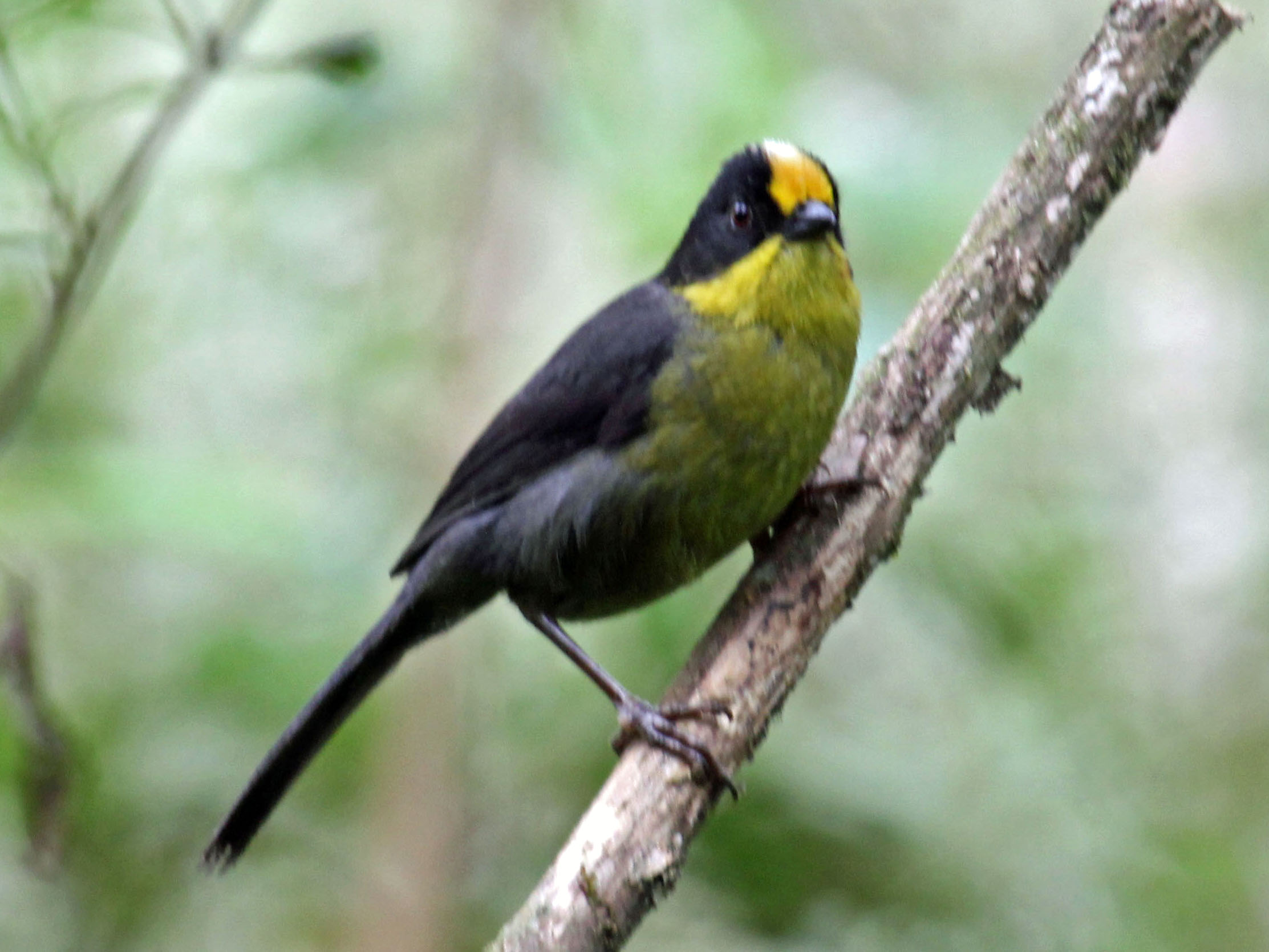 Pale-naped Brush-Finch (Atlapetes pallidinucha) - Guango Lodge, Ecuador